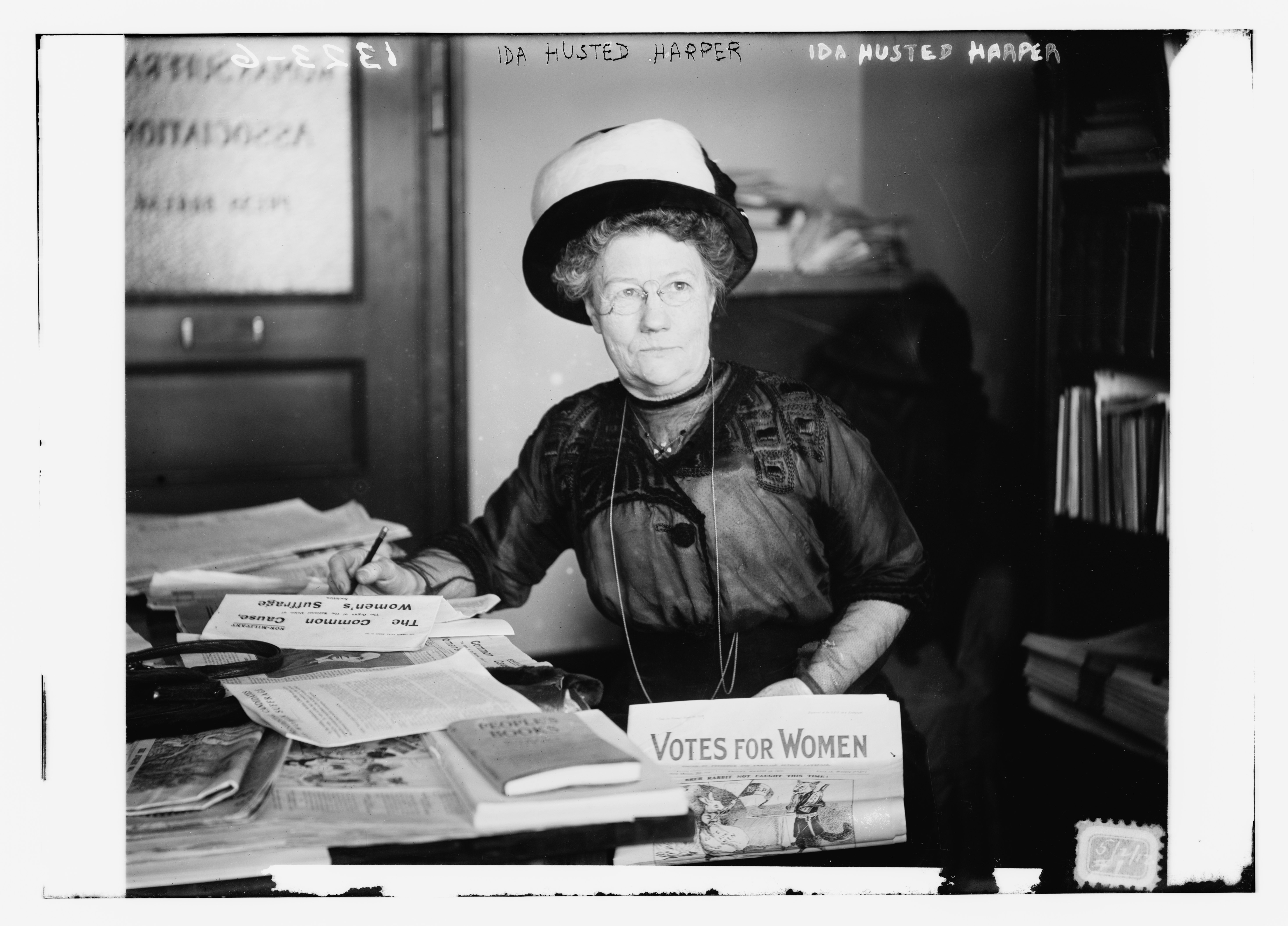 Title: Ida Husted Harper Abstract/medium: 1 negative : glass ; 5 x 7 in. or smaller.